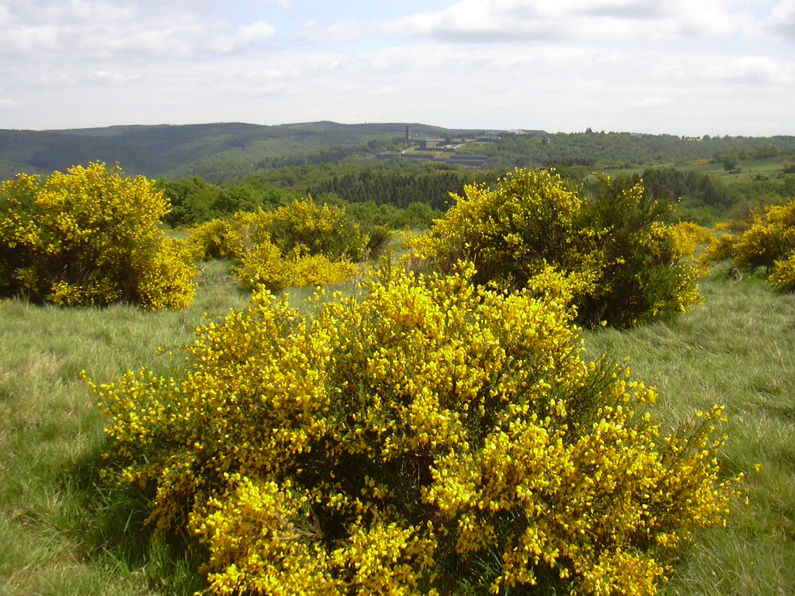 outside Wollseifen: Footpath on highlands